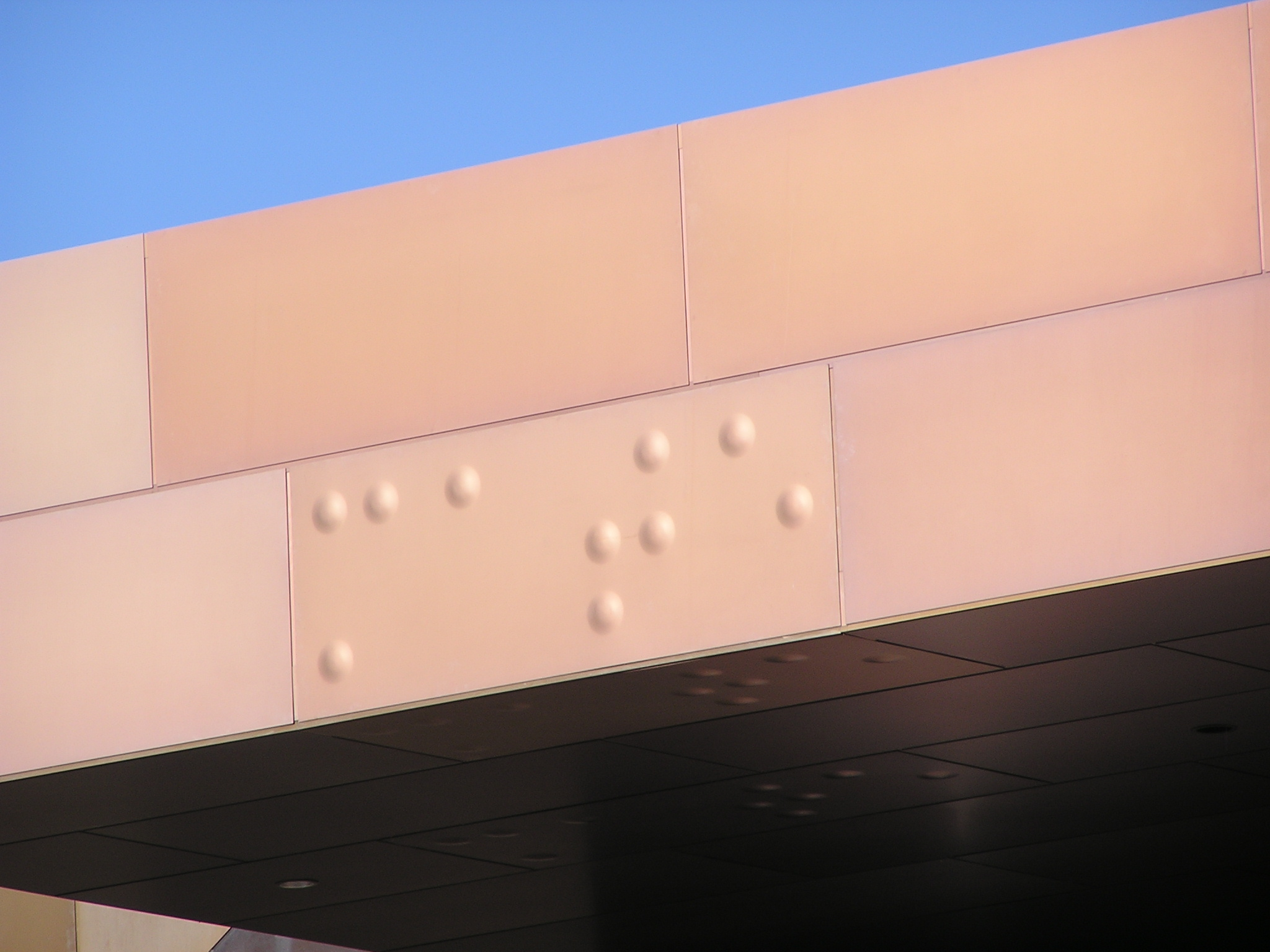 The word "mate" inscribed on the exterior of the National Museum of Australia using braille